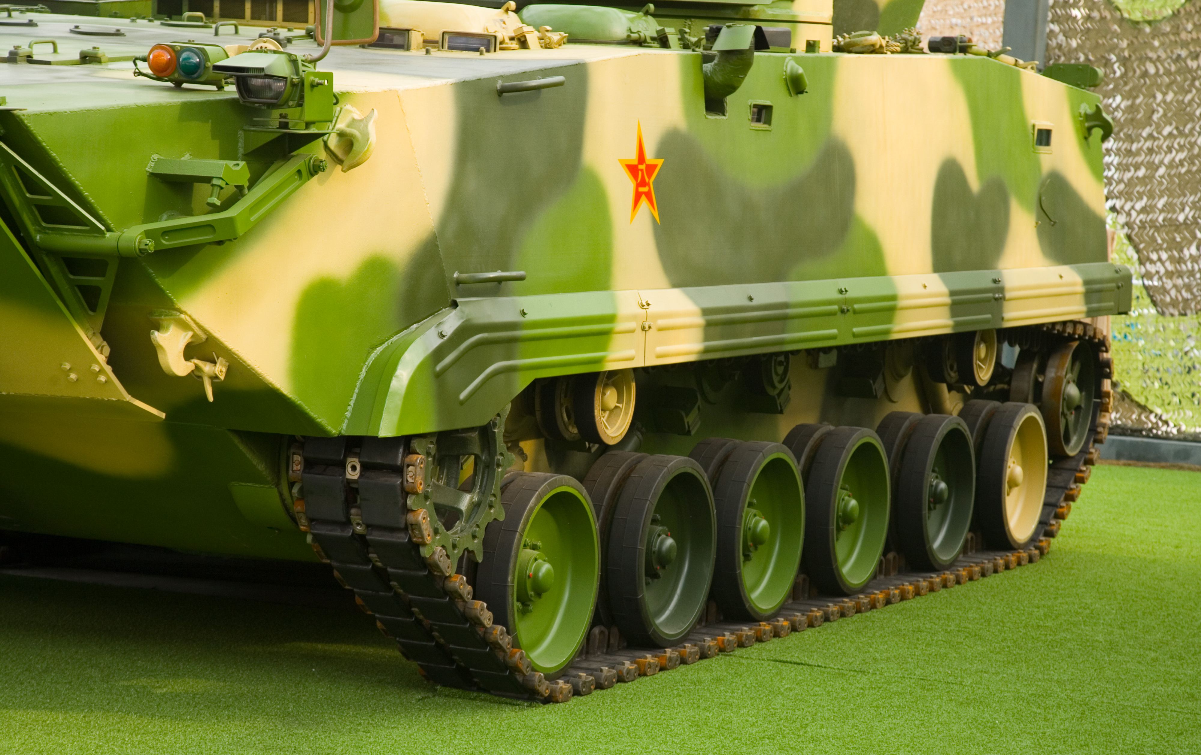 A Chinese ZBD-04 IFV. Detail of the hull. Note the single firing port and the six road wheels. It is on display at the Beijing Military Museum at the "Our Troops Towards the Sun" exhibition in Beijing.